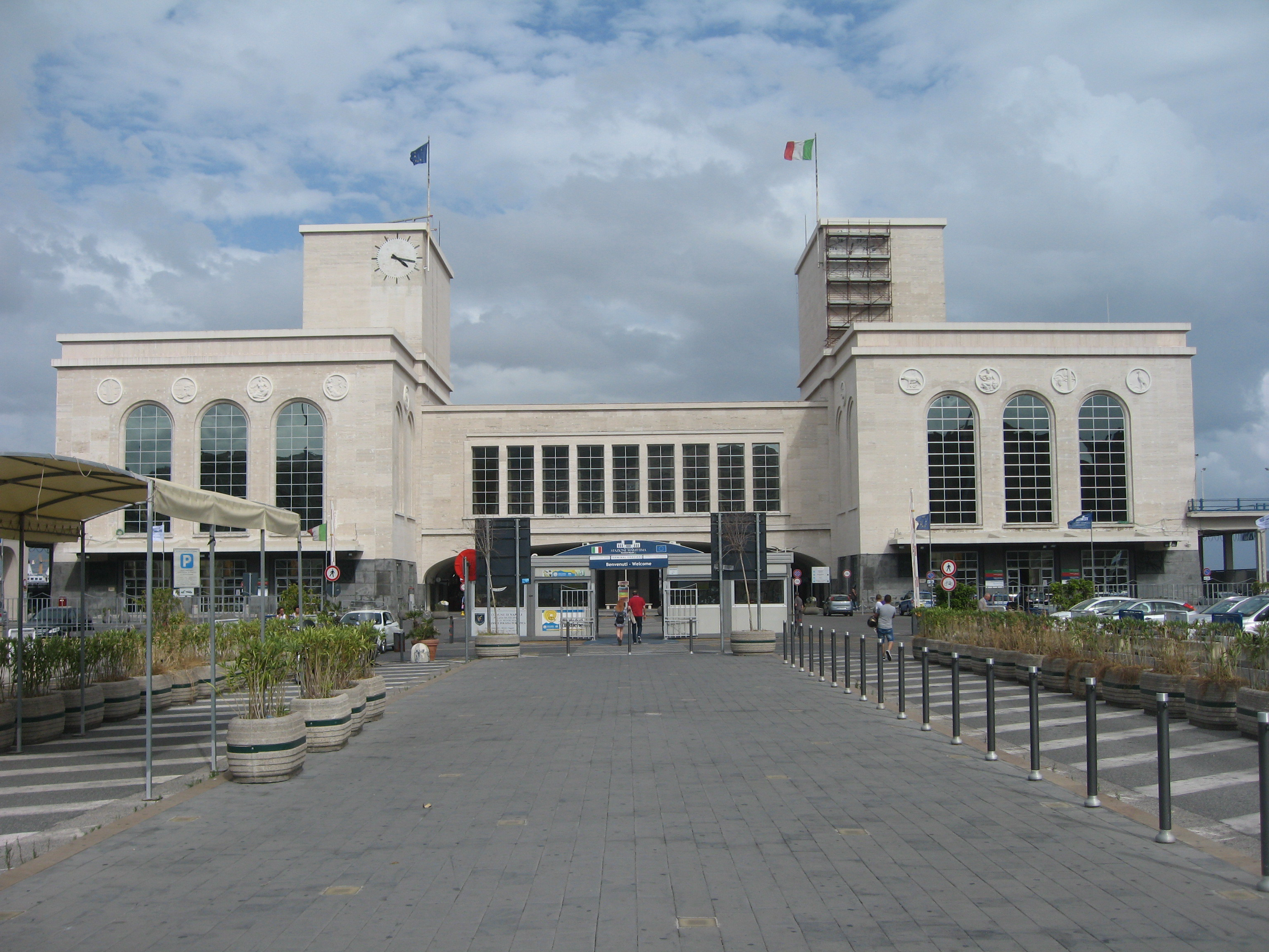 Port of Naples